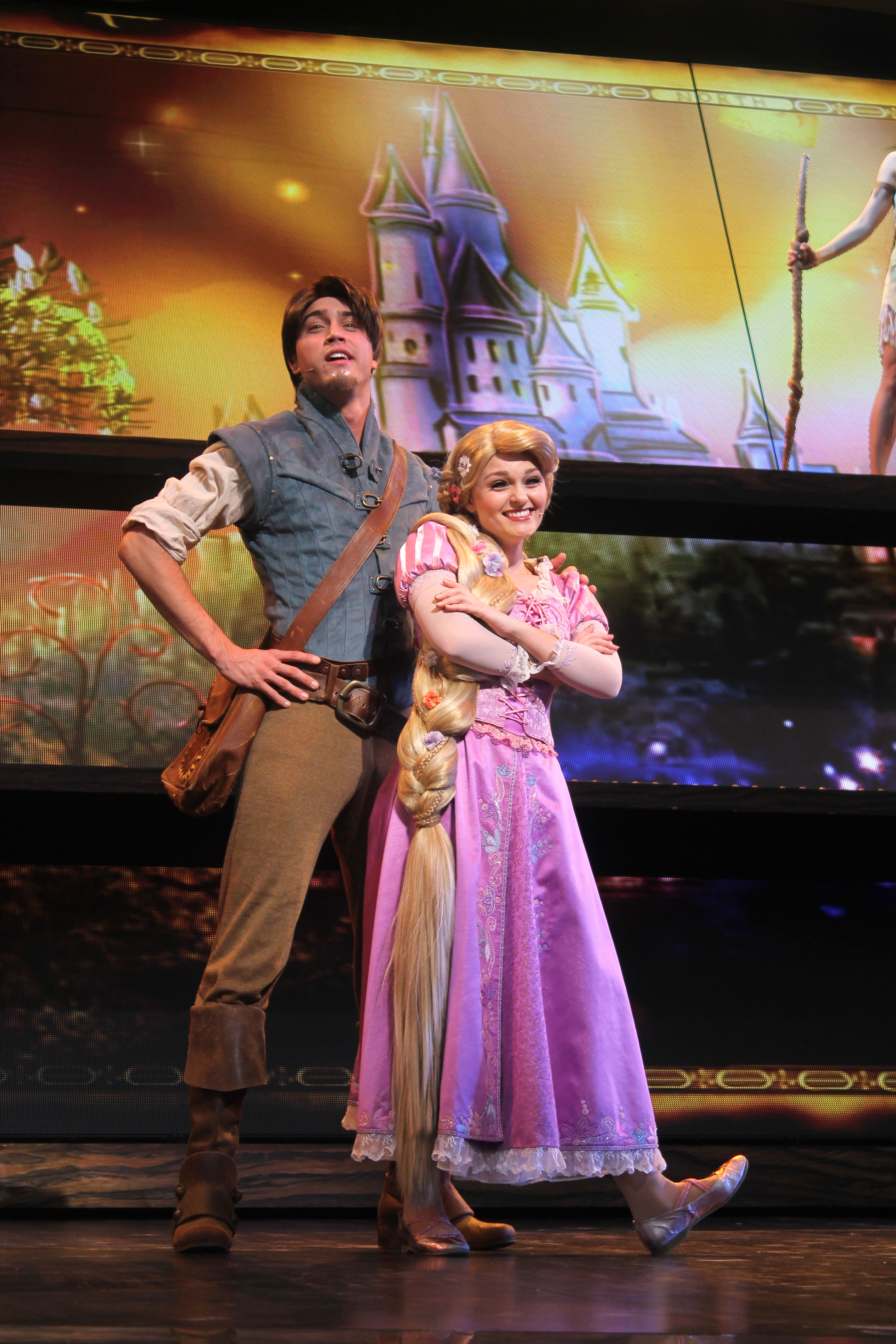 Mickey and the Magical Map - Flynn and Rapunzel